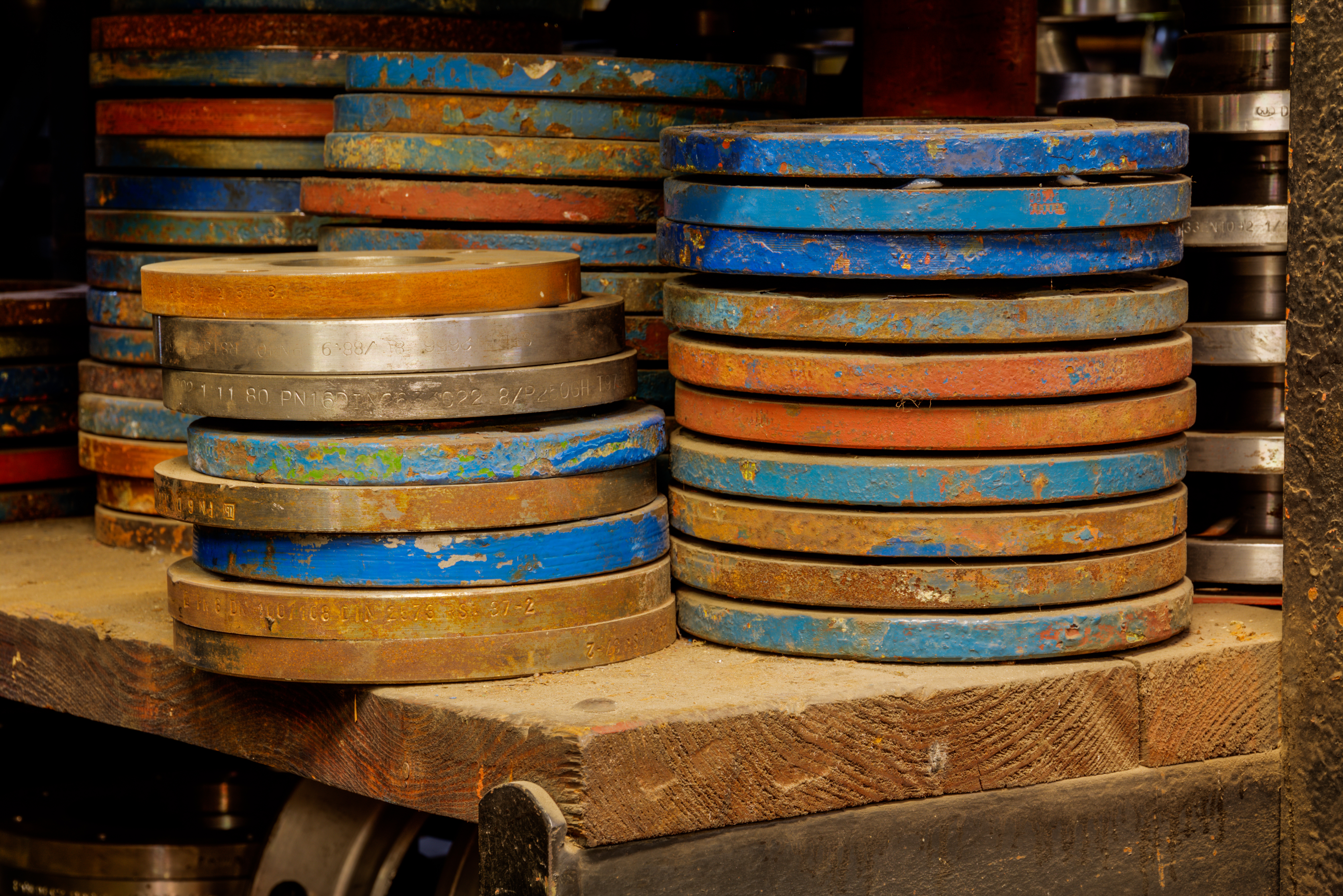 Material (flanges) in the tool shed, Quarzwerke, Sythen, Haltern am See, North Rhine-Westphalia, Germany